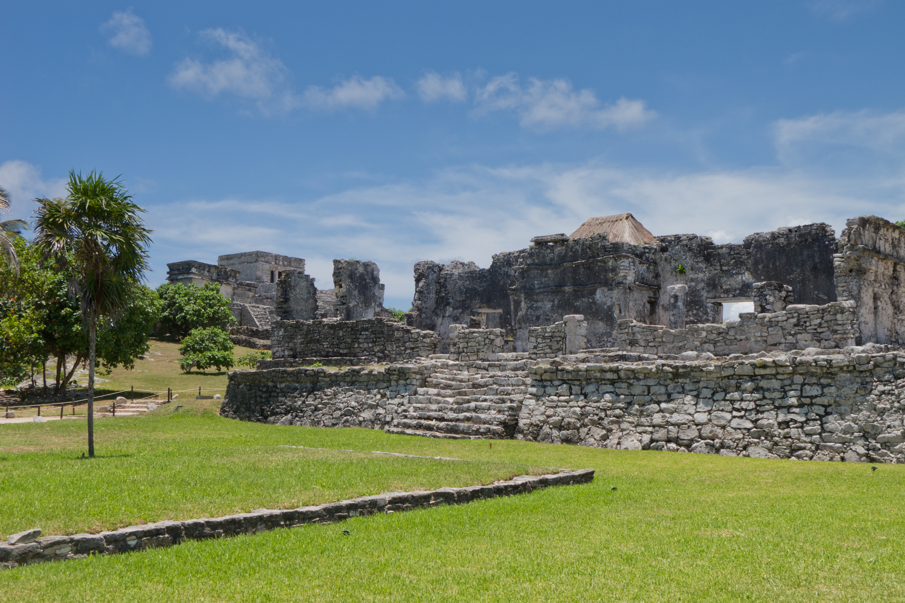 Tulum, Quintana Roo, Mexico.